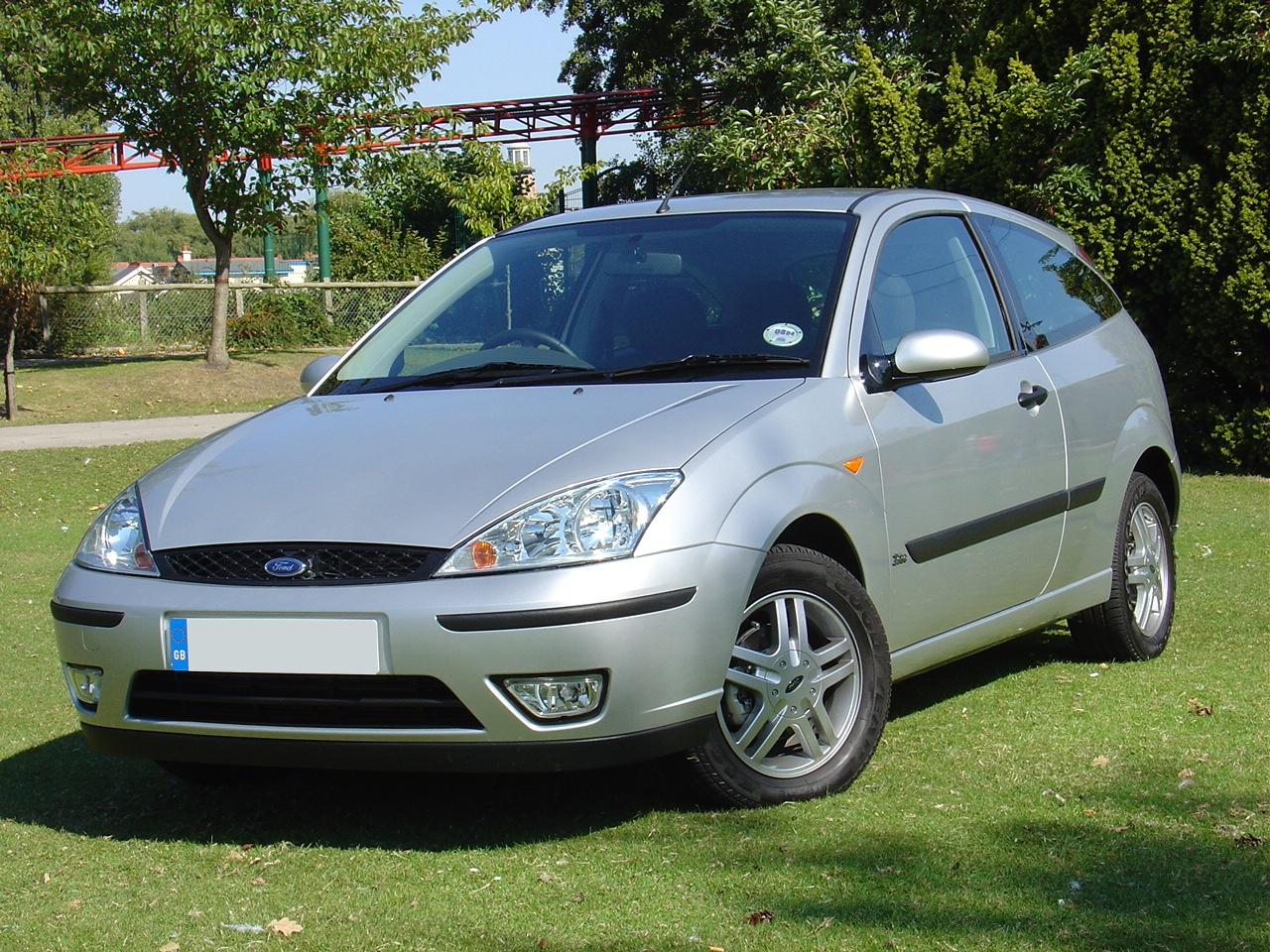 A photo of a Ford Focus 1.8 Zetec